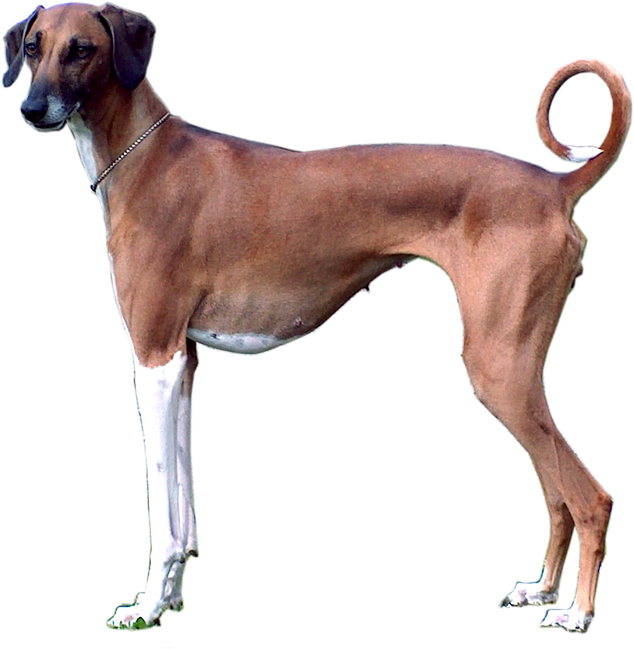 The Azawakh is a medium sized sighthound from the Sahel sub-Saharan savanna, mainly found in the three countries Mali, Niger and Burkina Faso. Breed a.k.a. Touareg Sloughi and South Saharan Greyhound.